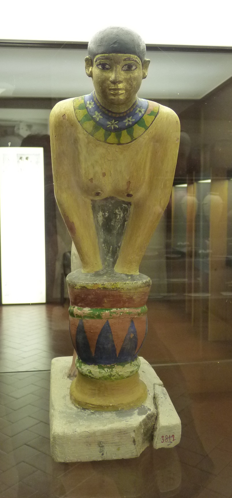 Model of a woman preparing beer by squeezing barley breads which were fermented in liquor of dates. Painted limestone, 5-6th dynasty, Old Kingdom. Florence, Museo archeologico nazionale, n. 3812.